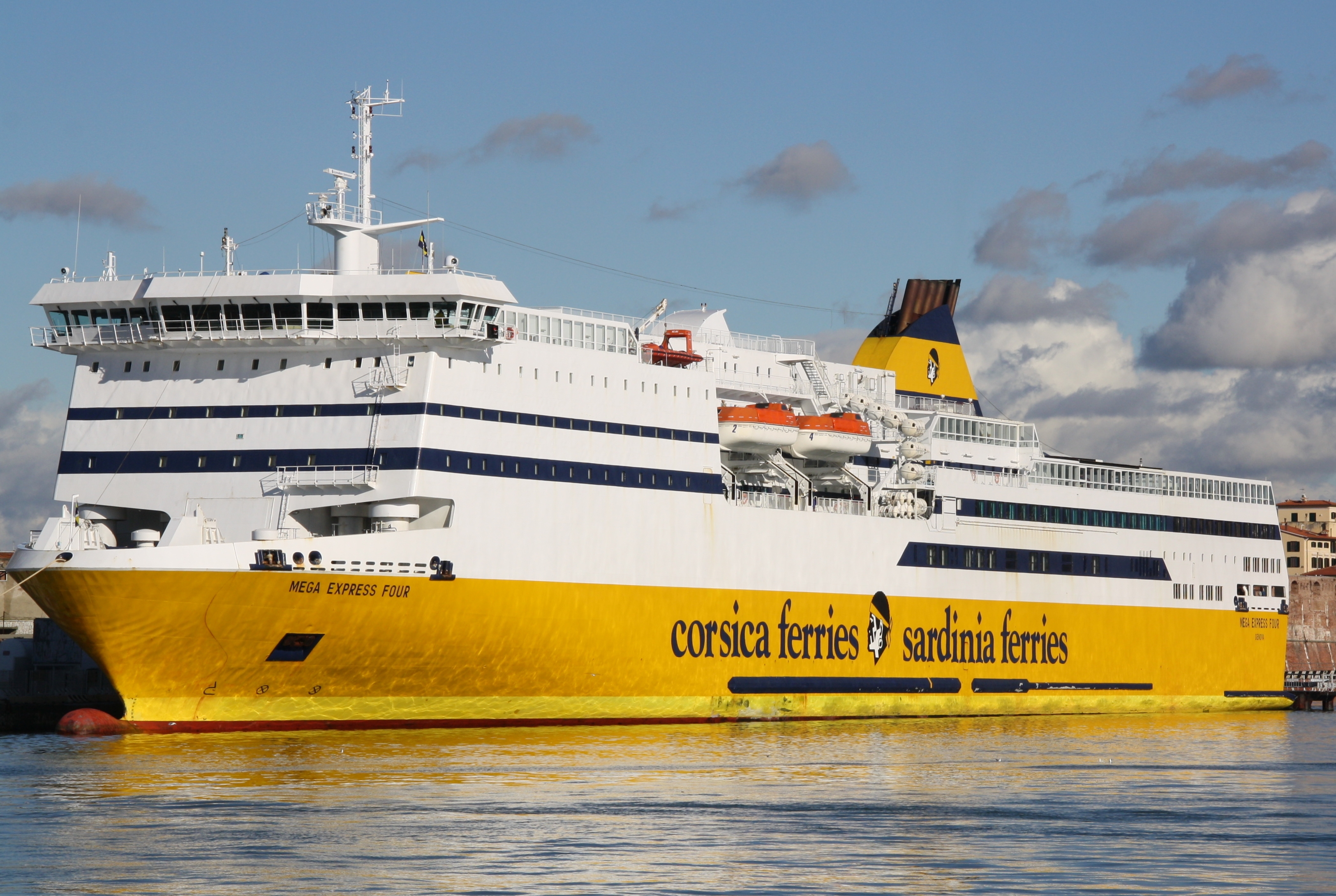 Italy, Port of Livorno. The Corsica Ferries fast ferry MS Mega Express Four berthed at “Sgarallino” wharf.